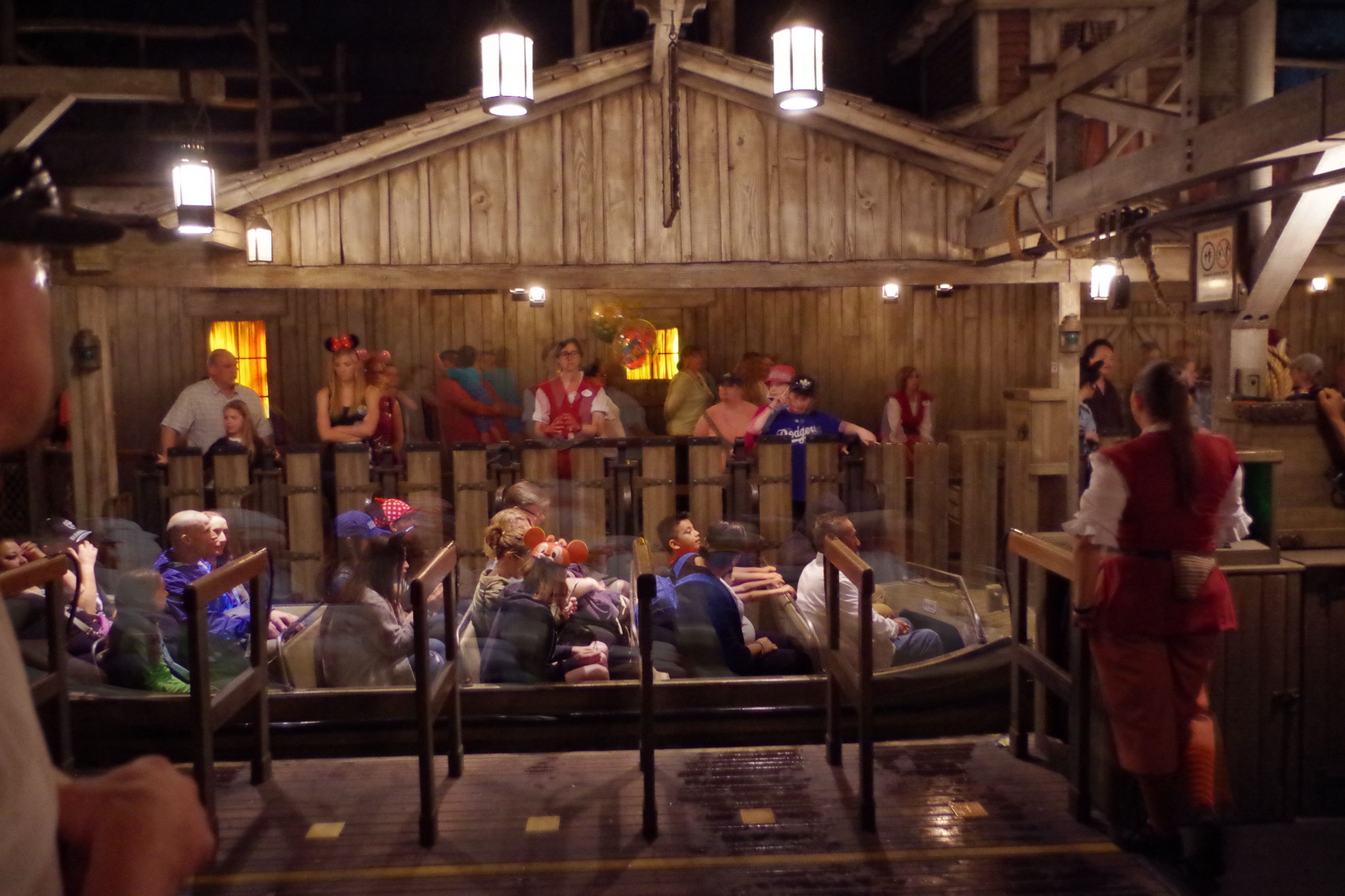 High dynamic range image of the loading area of Pirates of the Caribbean at Disneyland